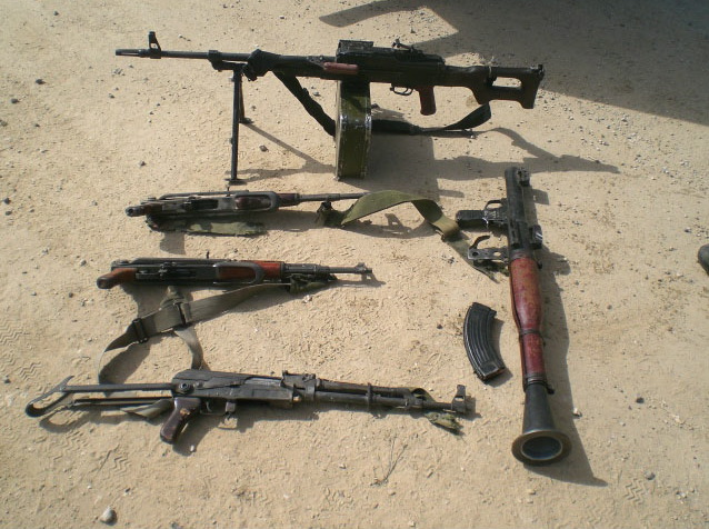 March 31, 2009 Photos of an RPG anti-tank missile, three AK-47 assault rifles, and two explosive devices were found on the bodies of armed gunmen killed during fire exchanges in the central Gaza Strip. The gunmen were seen planting an explosive device near the security fence. As a result, the IDF carried out an aerial strike and verified a direct hit. An IDF soldier was lightly injured during the exchange of fire.